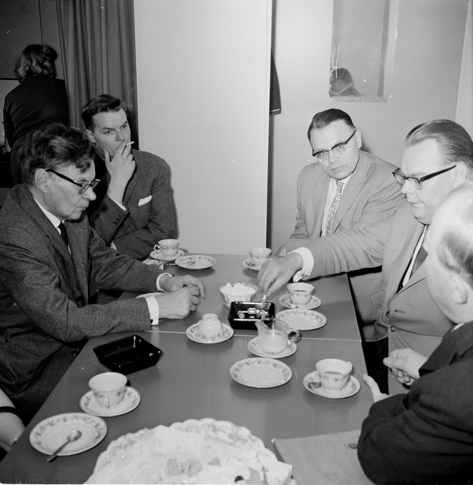 Photograph of the Estonian-American folklorist and linguist Felix Oinas (1911–2004).